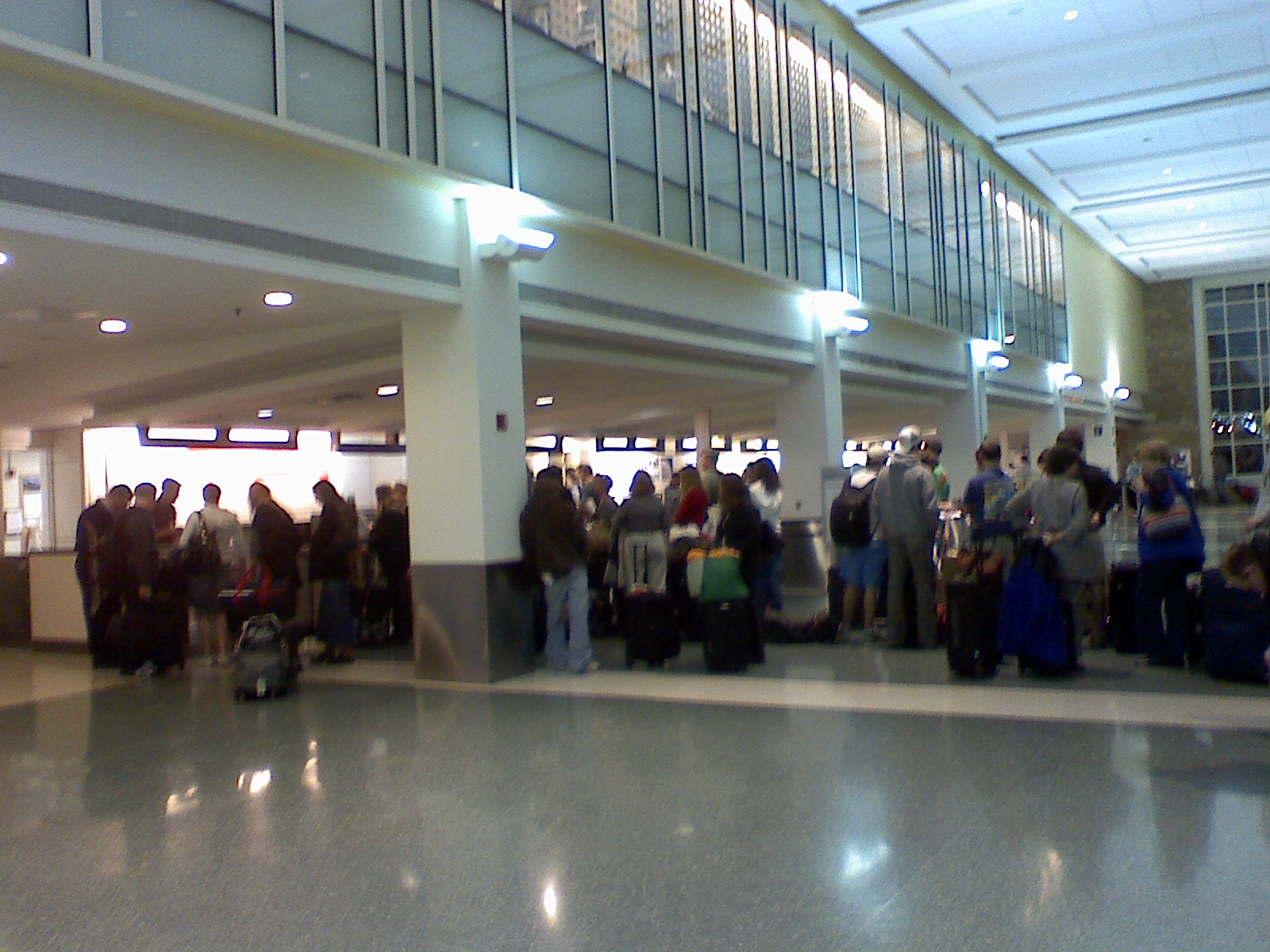 Image made by Me. Delta Airlines ticket counter at McGhee Tyson Airport in Knoxville.